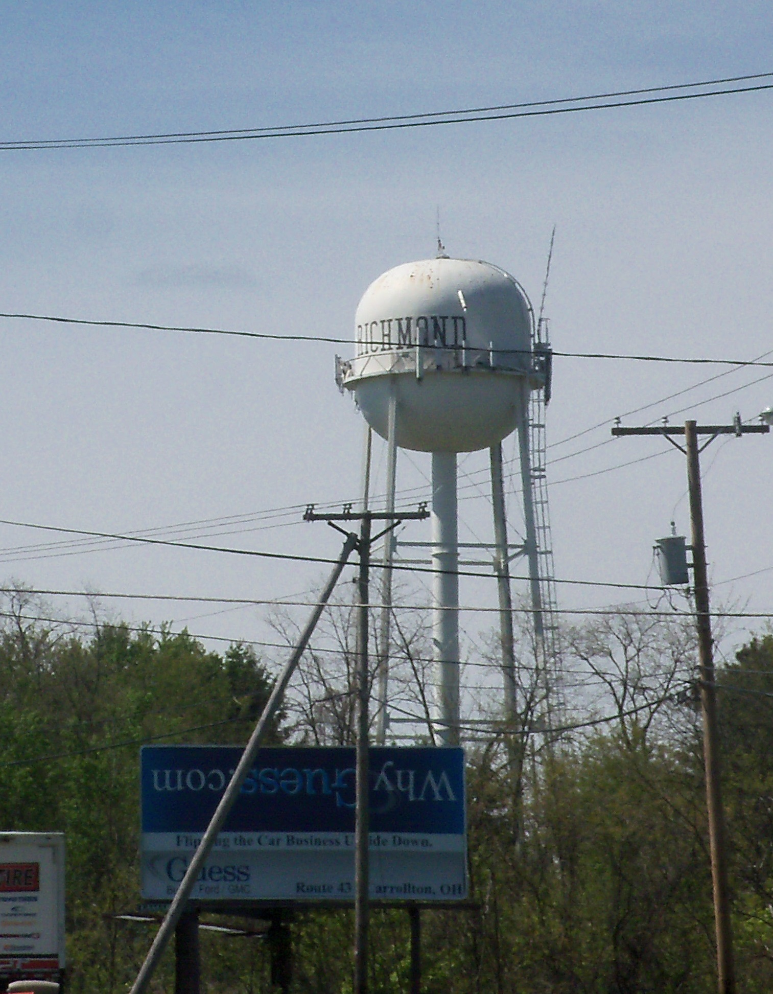 Richmond, Ohio Water Tower in Jefferson County, Ohio